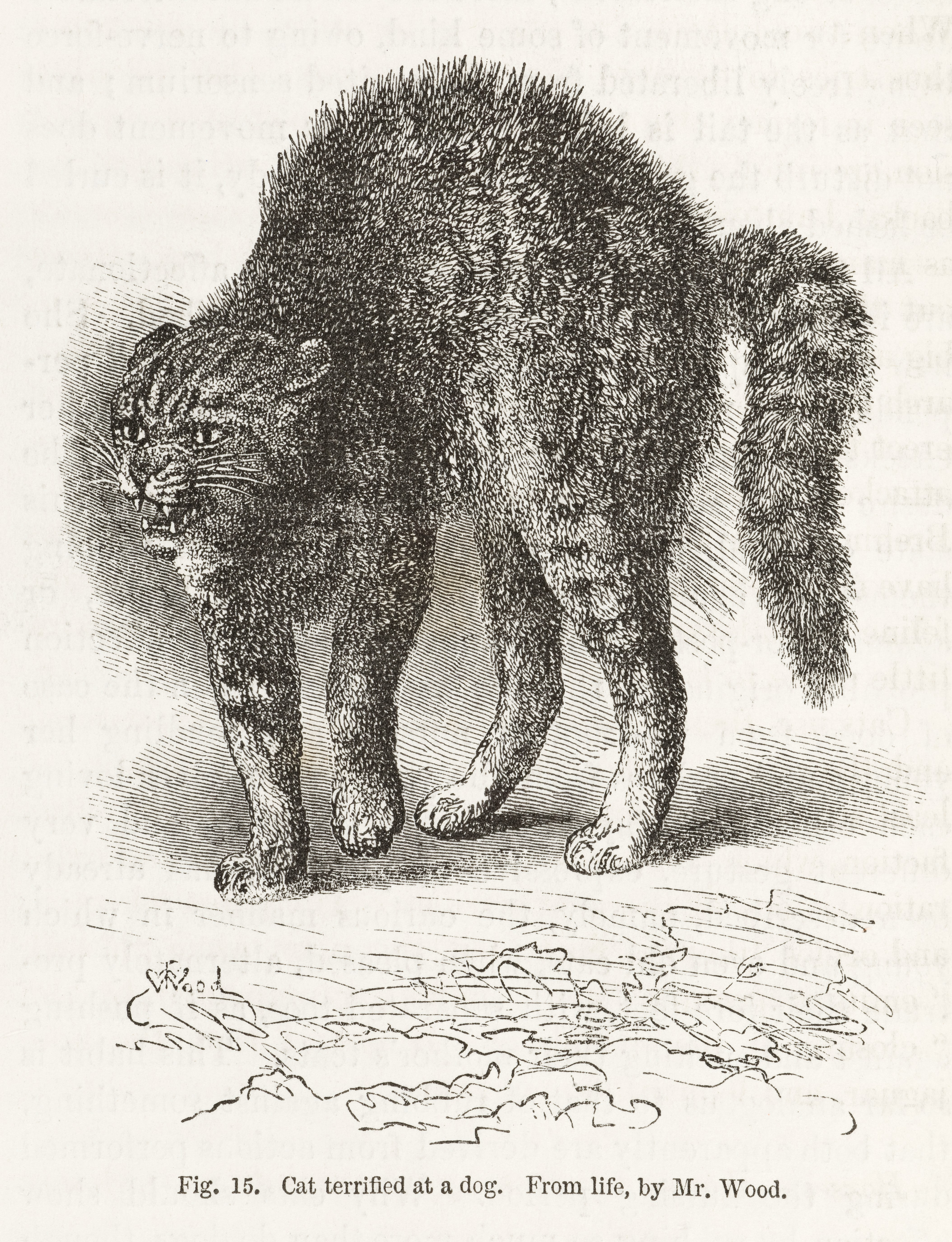 Illustration of cat terrified at a dog from Chapter V Special Expressions of Animals General Collections